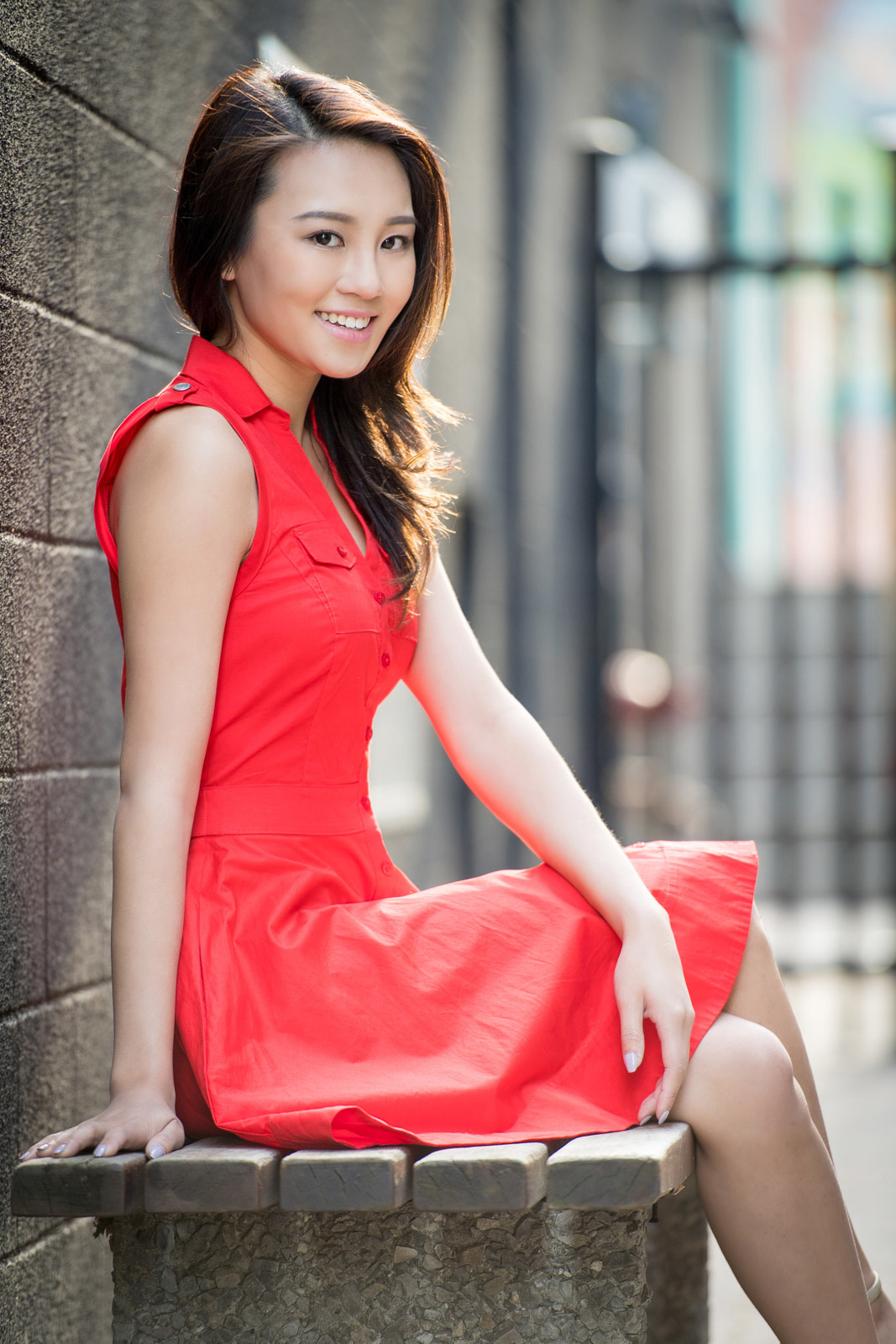 The 3rd runner-up in the Miss Hong Kong 2016